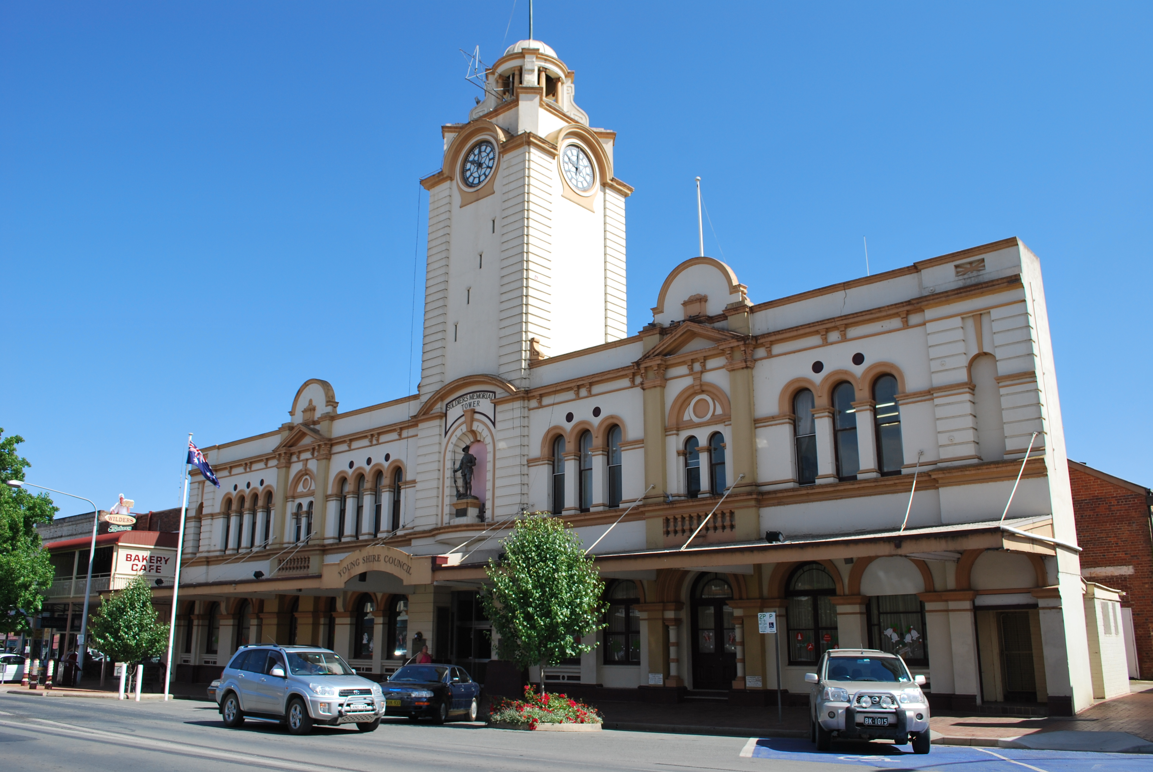 Shire Hall at Young, New South Wales, including the Soldiers Memorial Tower